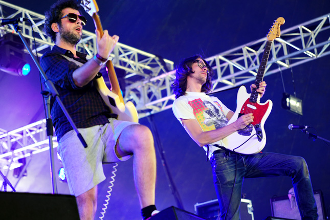 Southbound Festival 2011